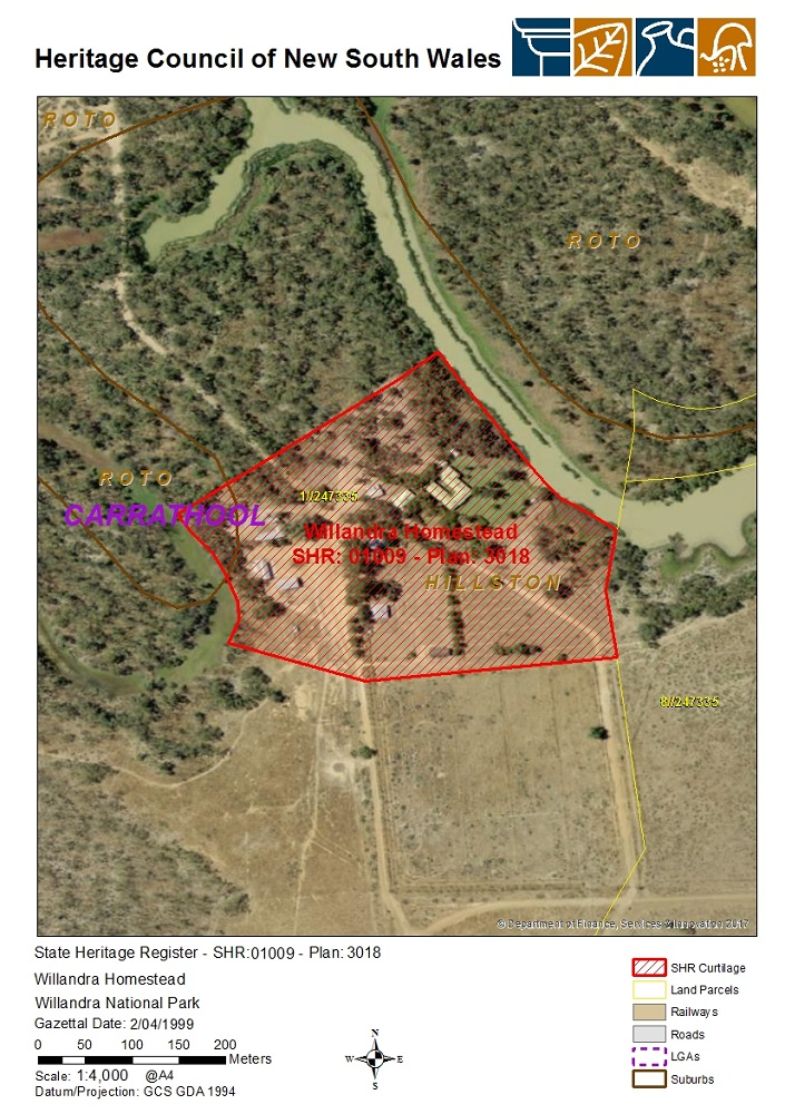 Willandra Homestead: SHR Plan 3018